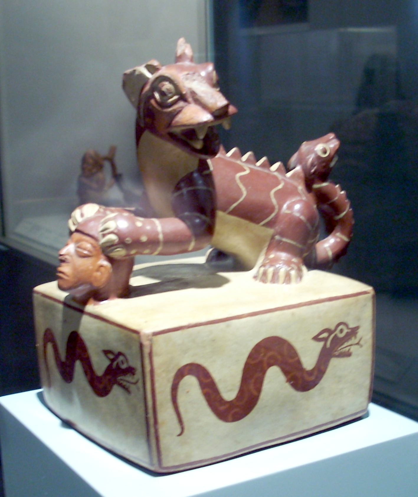 Feline with snake tail gripping a trophy head in its paws. Ceramic, Moche culture, 100-700 AD, from Huaca de Tantalluc, Peru. Item 1441 in the Museum of the Americas, Madrid.